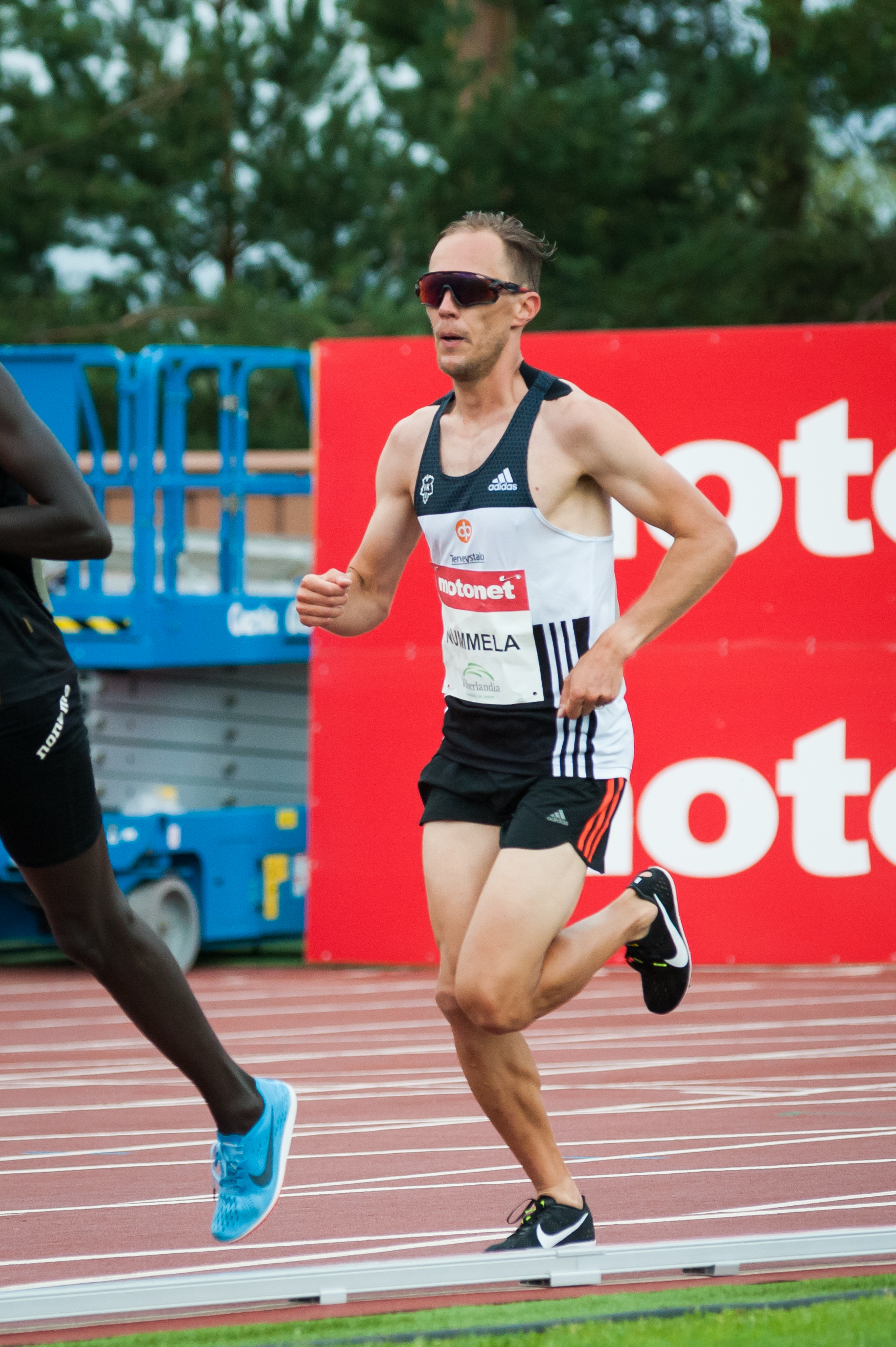 Men's 5000 m competition at the 2018 Kalevan Kisat, the Finnish championships in athletics, in Jyväskylä, Finland.